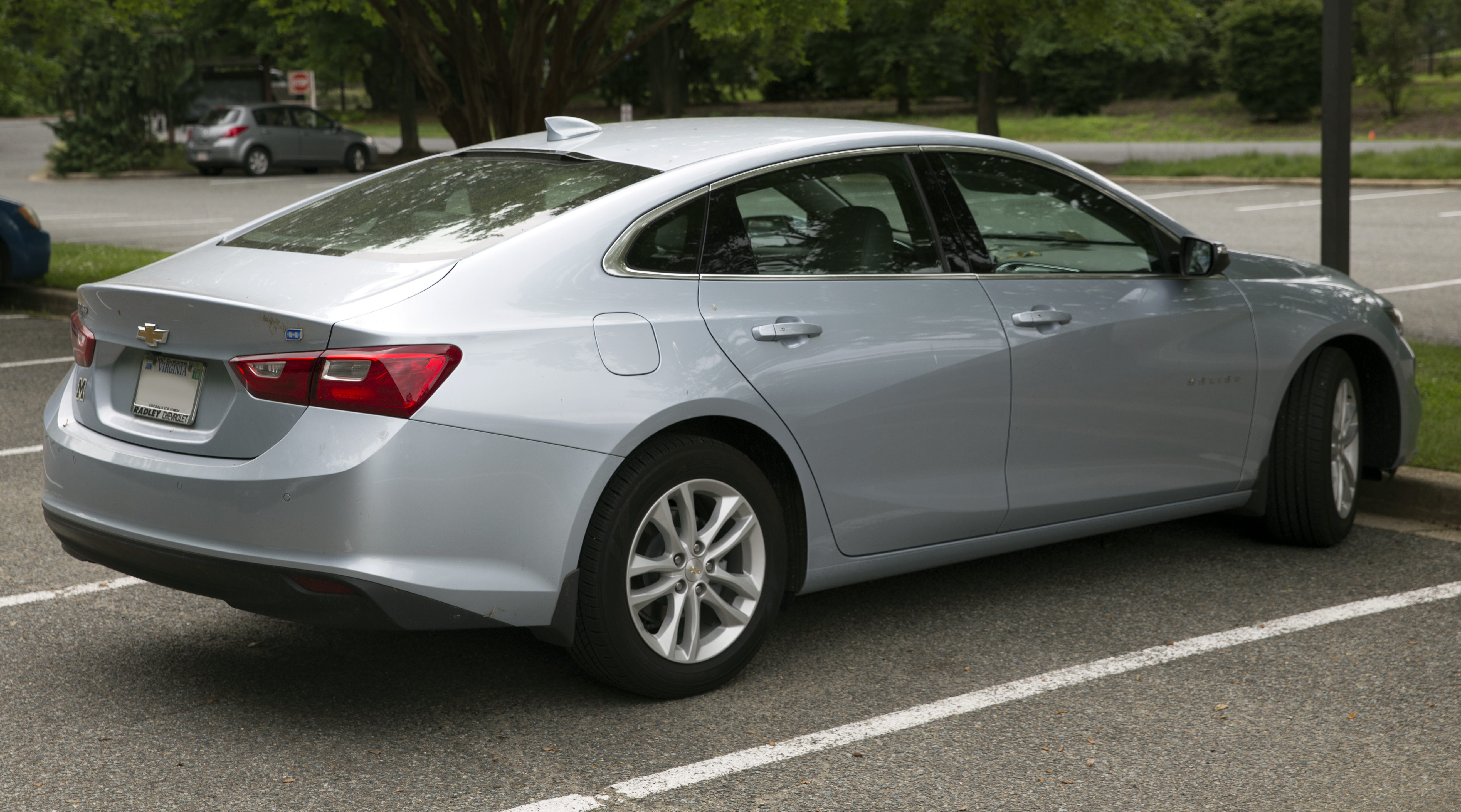 A 2017 Chevrolet Malibu Hybrid in the parking lot of the United States National Arboretum, DC.